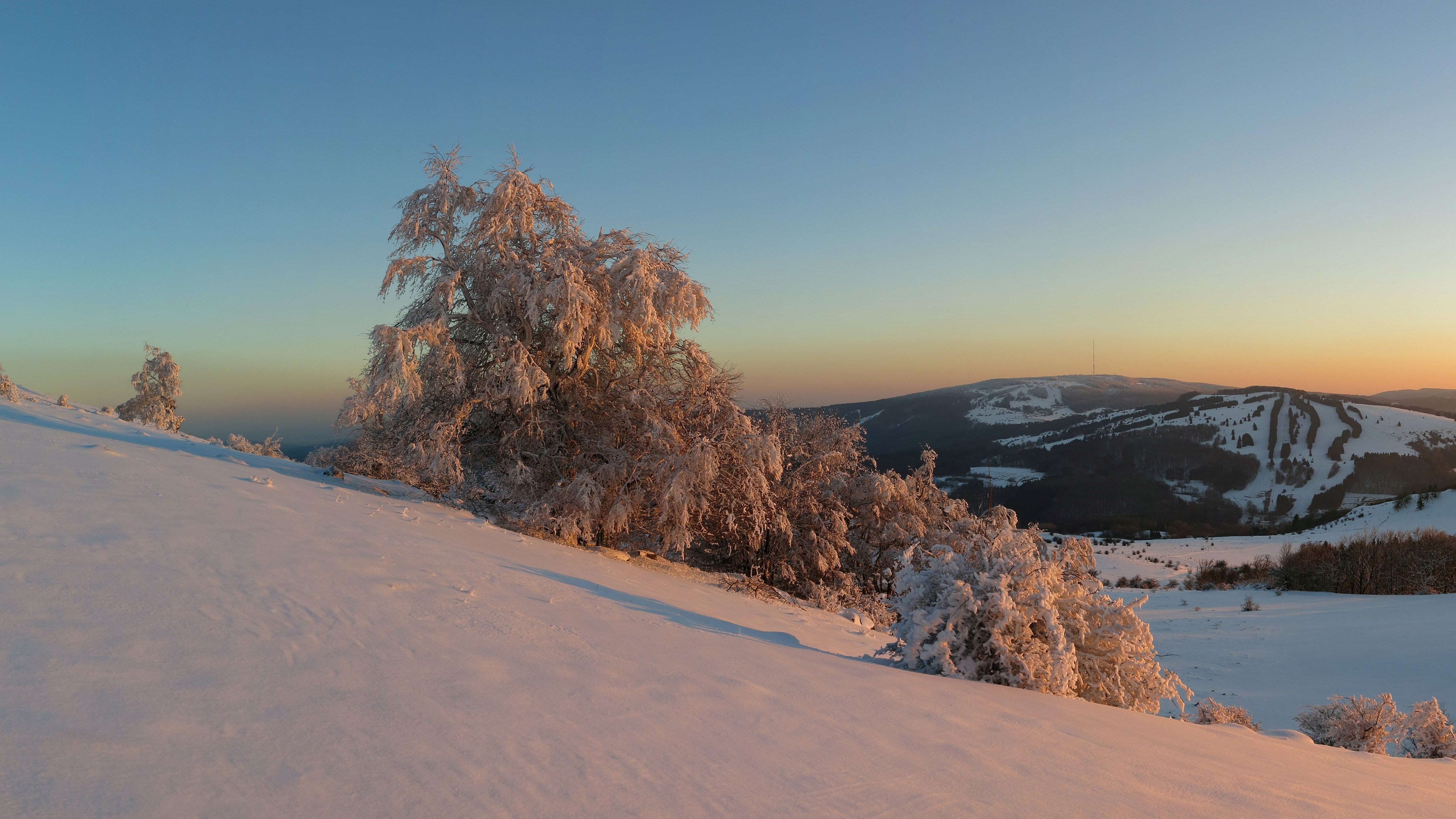 Witch-beech on Himmeldunkberg in Rhön Biosphere Reserve.